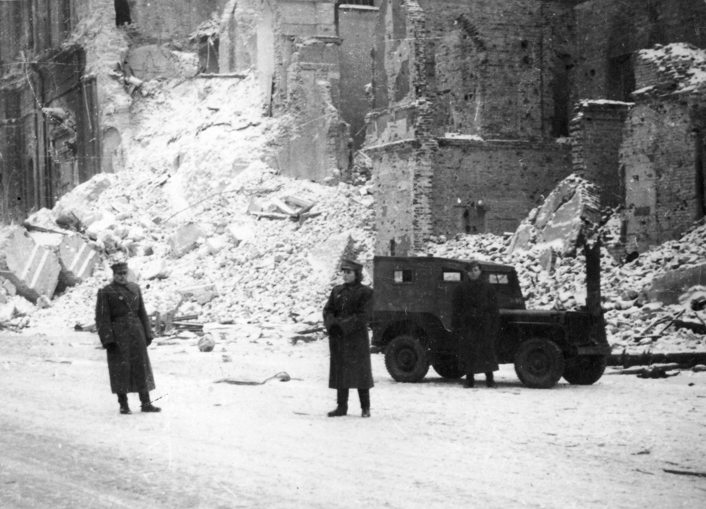 Polish Army soldiers after entering Warsaw in 1945. Krakowskie Przedmieście Street, Holy Cross Church. In the back one can see Willys jeep used by Polish Army as part of US Lend-Lease program